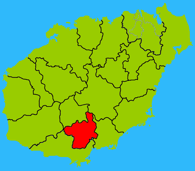 Hainan subdivisions - Baoting Li and Miao Autonomous County